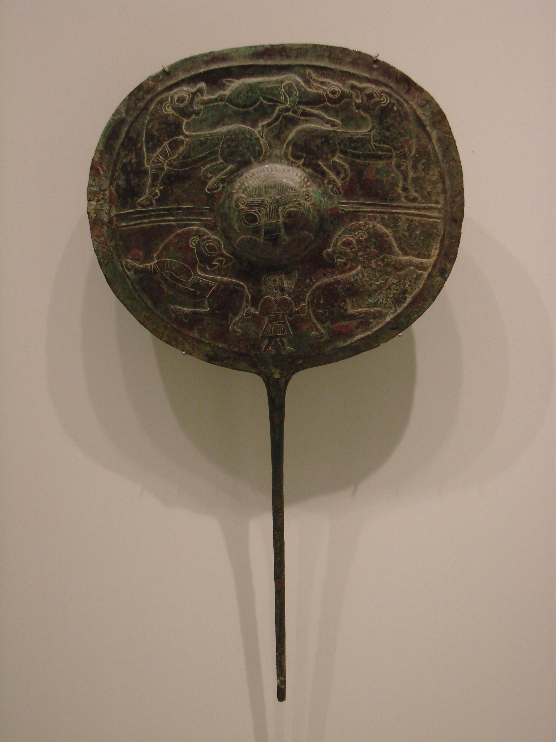 Disc-headed pins, pin, female figure See upper